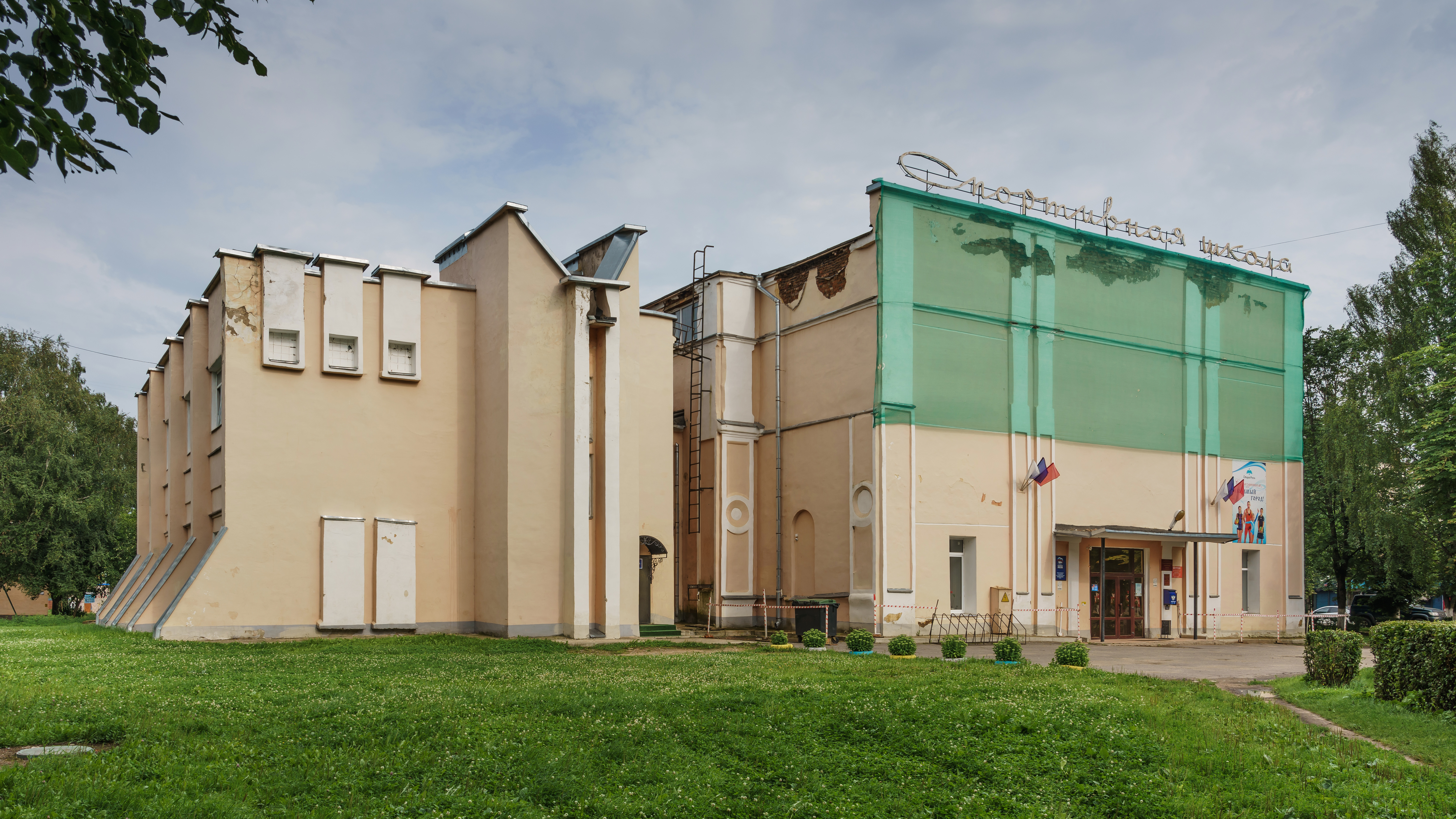 Former Spaso-Preobrazhensky Monastery in Staraya Russa, Novgorod Oblast, Russia